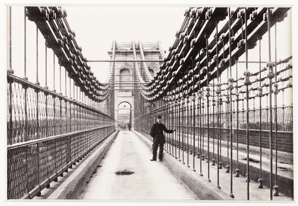 Creator: Francis Bedford (1816 - 1894) Date: c. 1880 Format: Albumen print Collection: National Media Museum Collection Inventory no: 1990-5037_B1_0997 A photographic view across the Menai suspension bridge in Bangor, North Wales. Built by one of England's greatest civil engineers, Thomas Telford (1757 - 1834), construction began in 1819 and the bridge opened for traffic in 1826. It crosses the Menai Straits between Bangor and Anglesey.